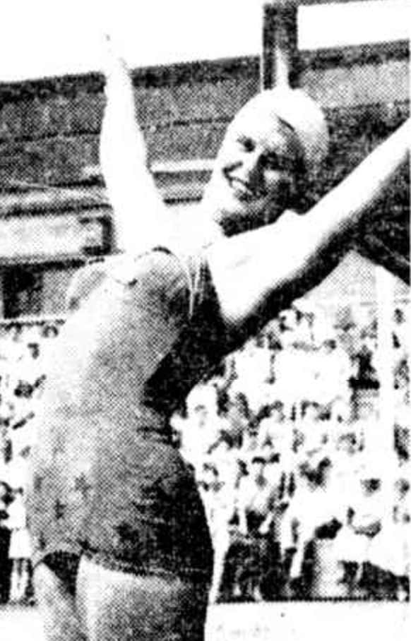 Adele Price (born 1935), Australian diver, 1956 Olympics competitor in 10m platform